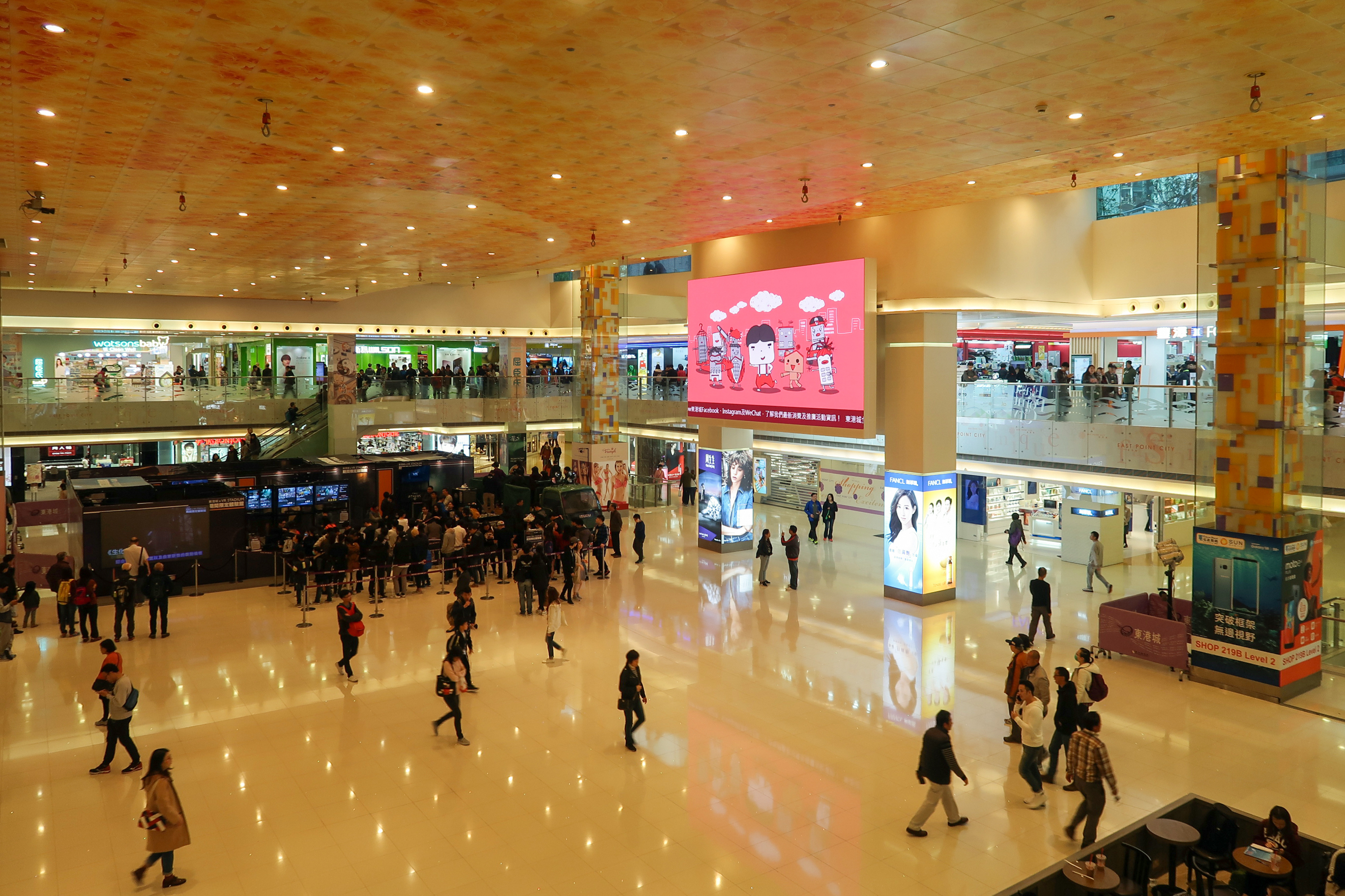 East Point City Atrium